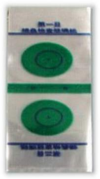 A PINWORM CHECK TAPE